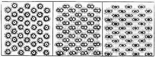 From John Dalton’s New System of Chemical Philosophy.Hydrogen Gas. - Nitrous Gas. - Carbonic Acid Gas.Illustration from 1911 Encyclopædia Britannica, article Atom.